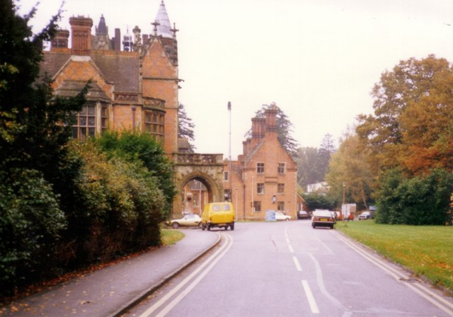 Borocourt Hospital (Wyfold Court) This photo was taken when Borocourt was still a hospital for people with Learning Disability. It closed in February 1992 and has been converted to luxury apartments.